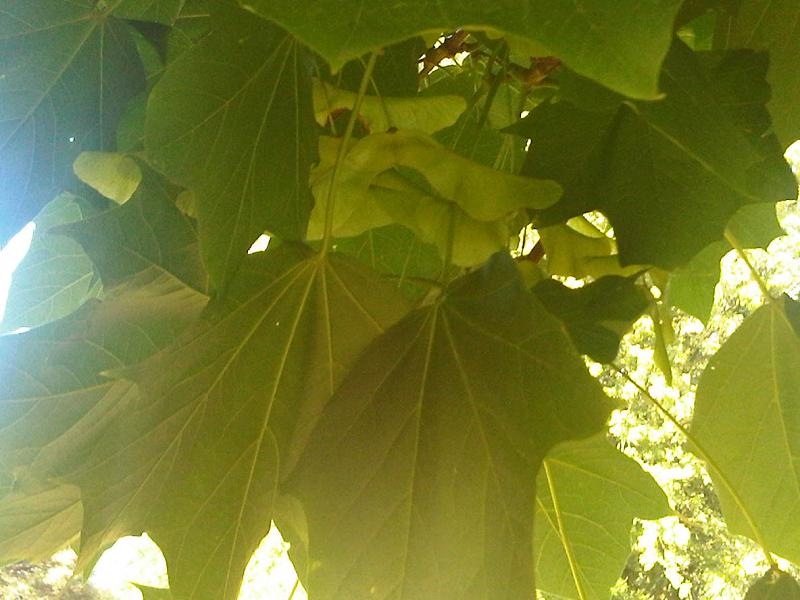 Norway Maple Acer platanoides leaves and seeds in Putney Heath Common, England.